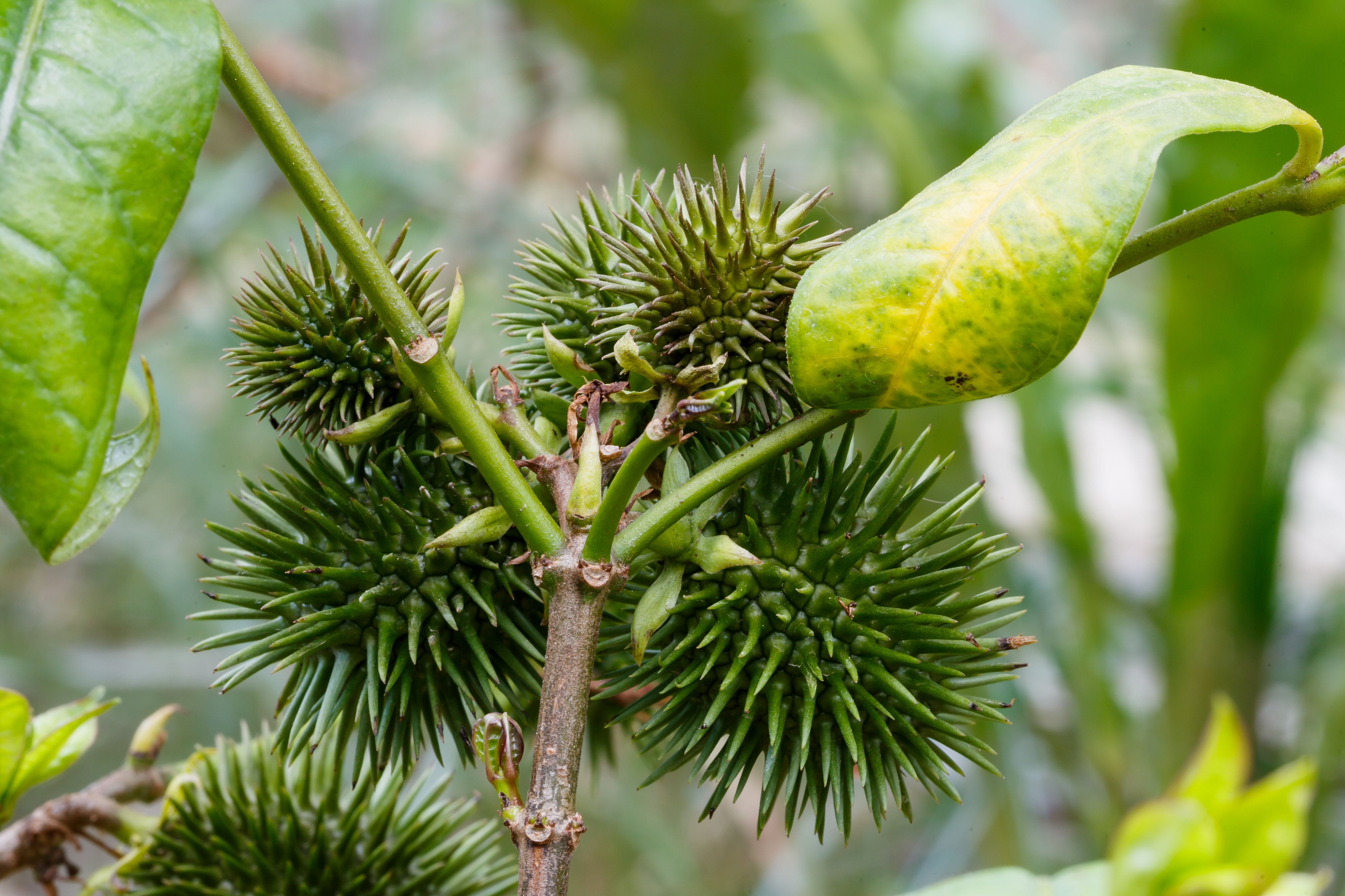 Cologne, Germany: Allamanda schottii (deutsch: Strauchige Allamanda) in the "Flora Köln" gardens